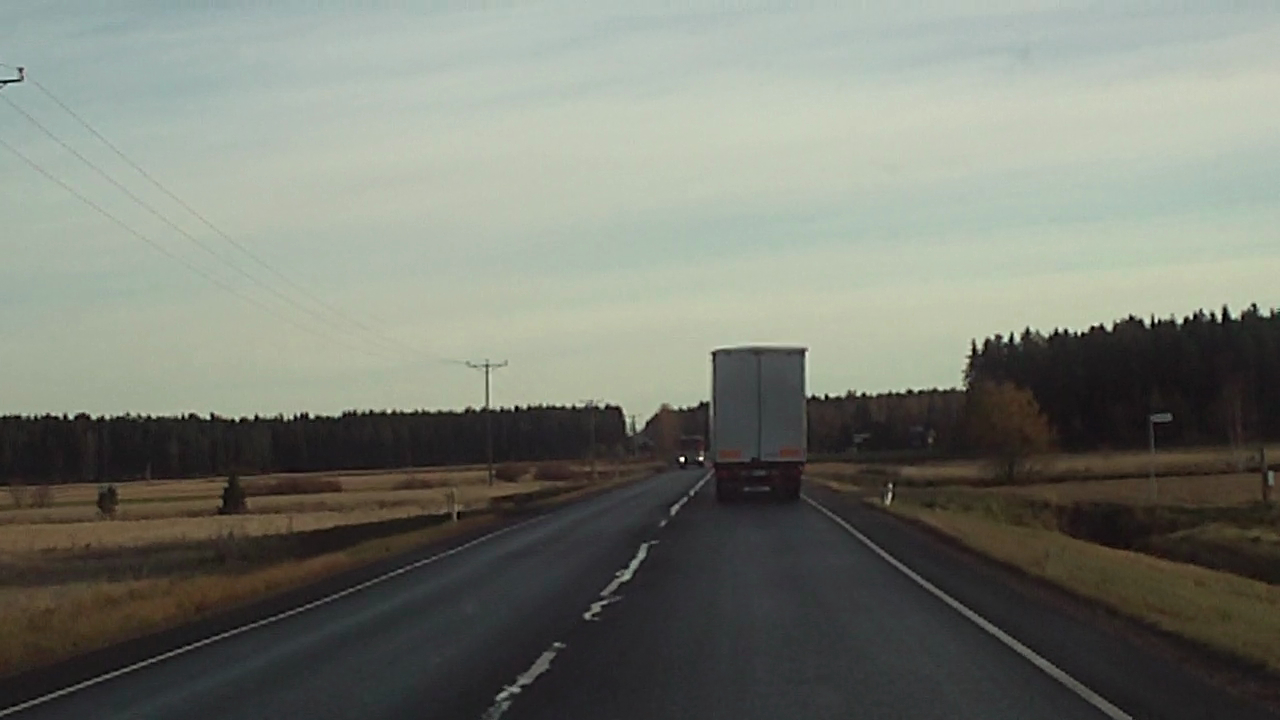 Finnish national road 10. In Marttila, southwestern Finland, Marttila